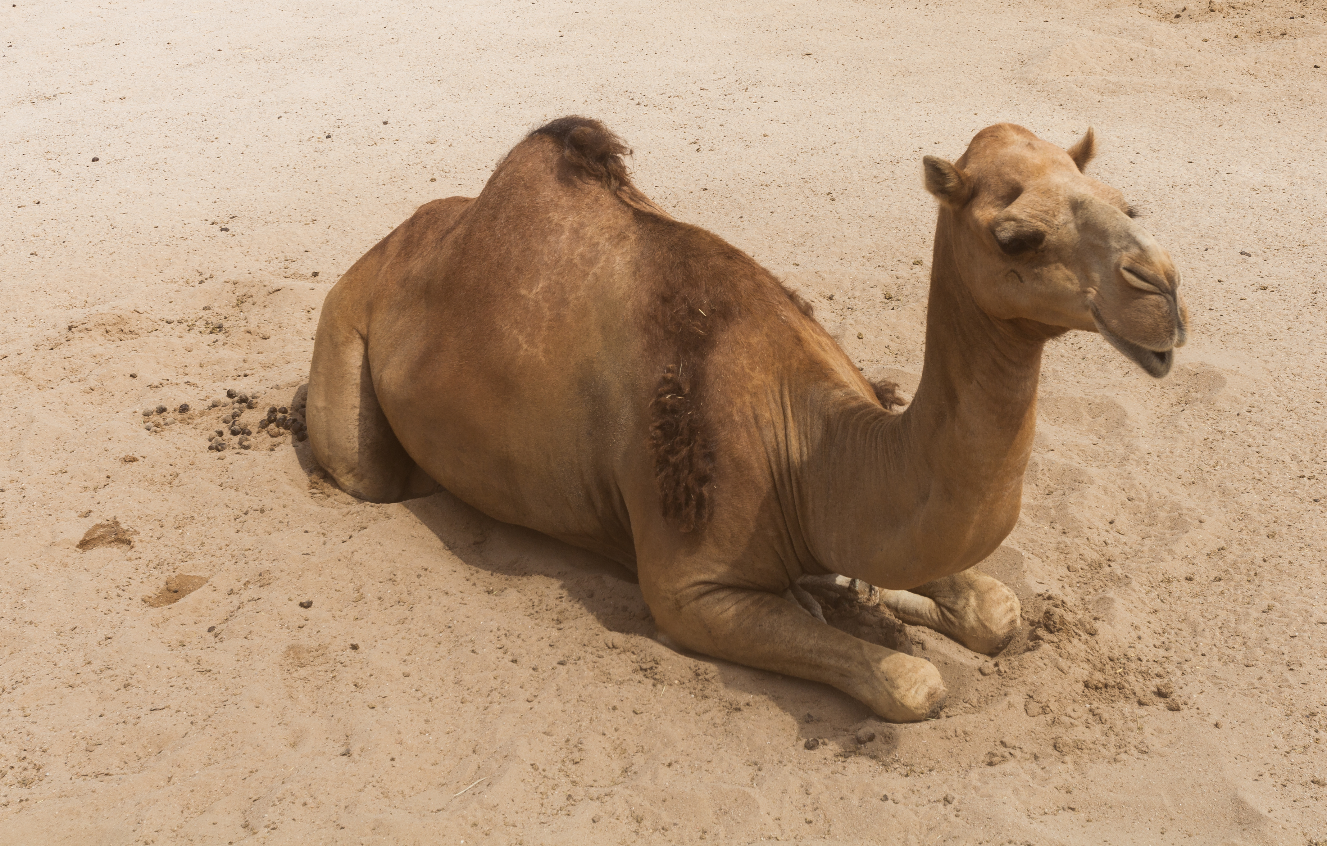 Camel next to the Al Koot Fort, Qatar